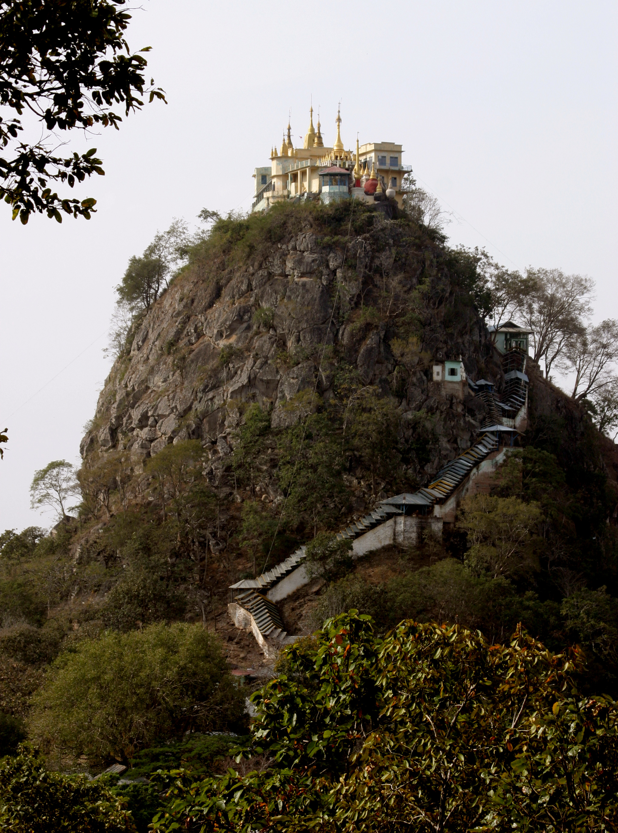 Mount Popa in the Mandalay Region in Myanmar.